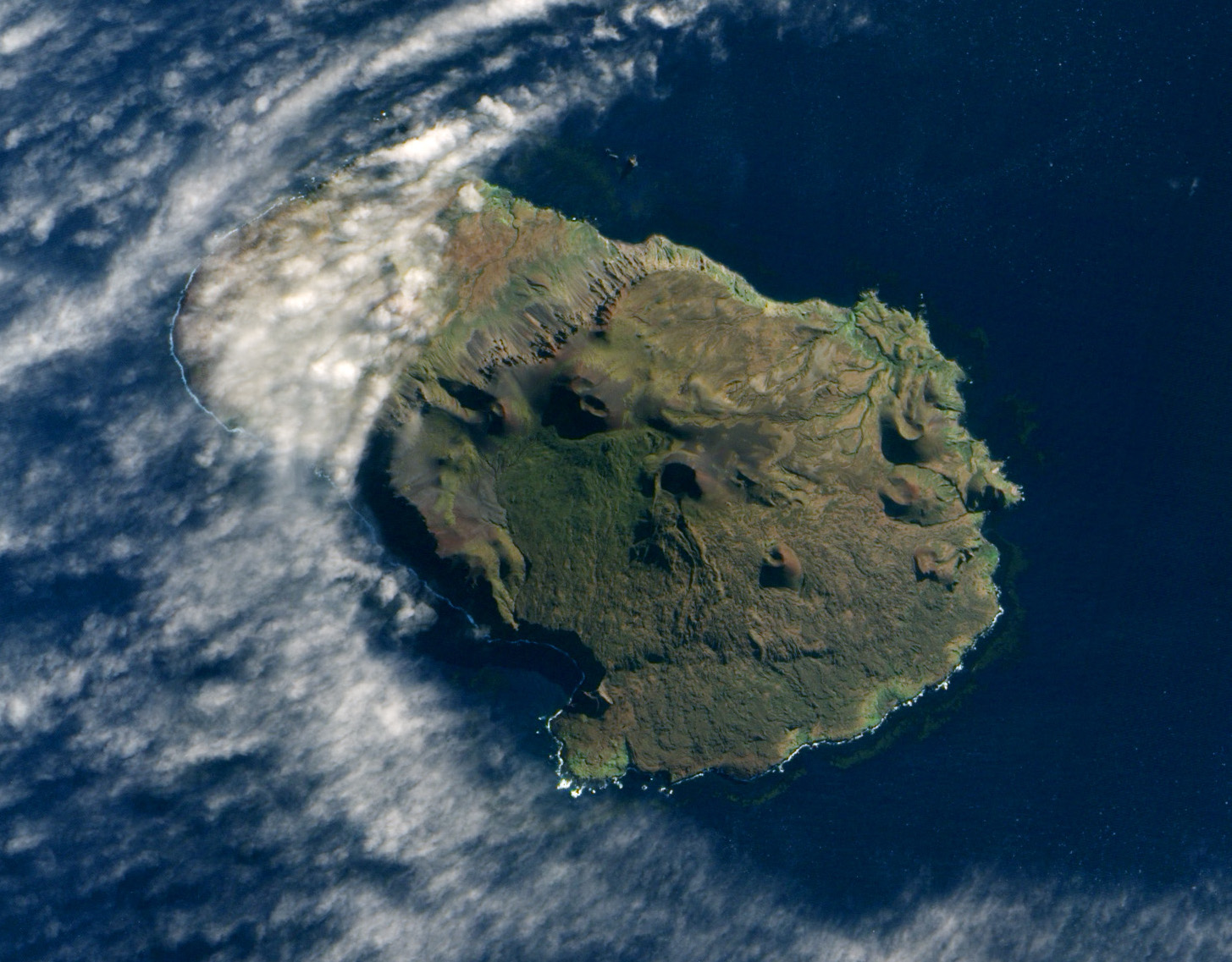 Satellite image of South Africa's Prince Edward Island.